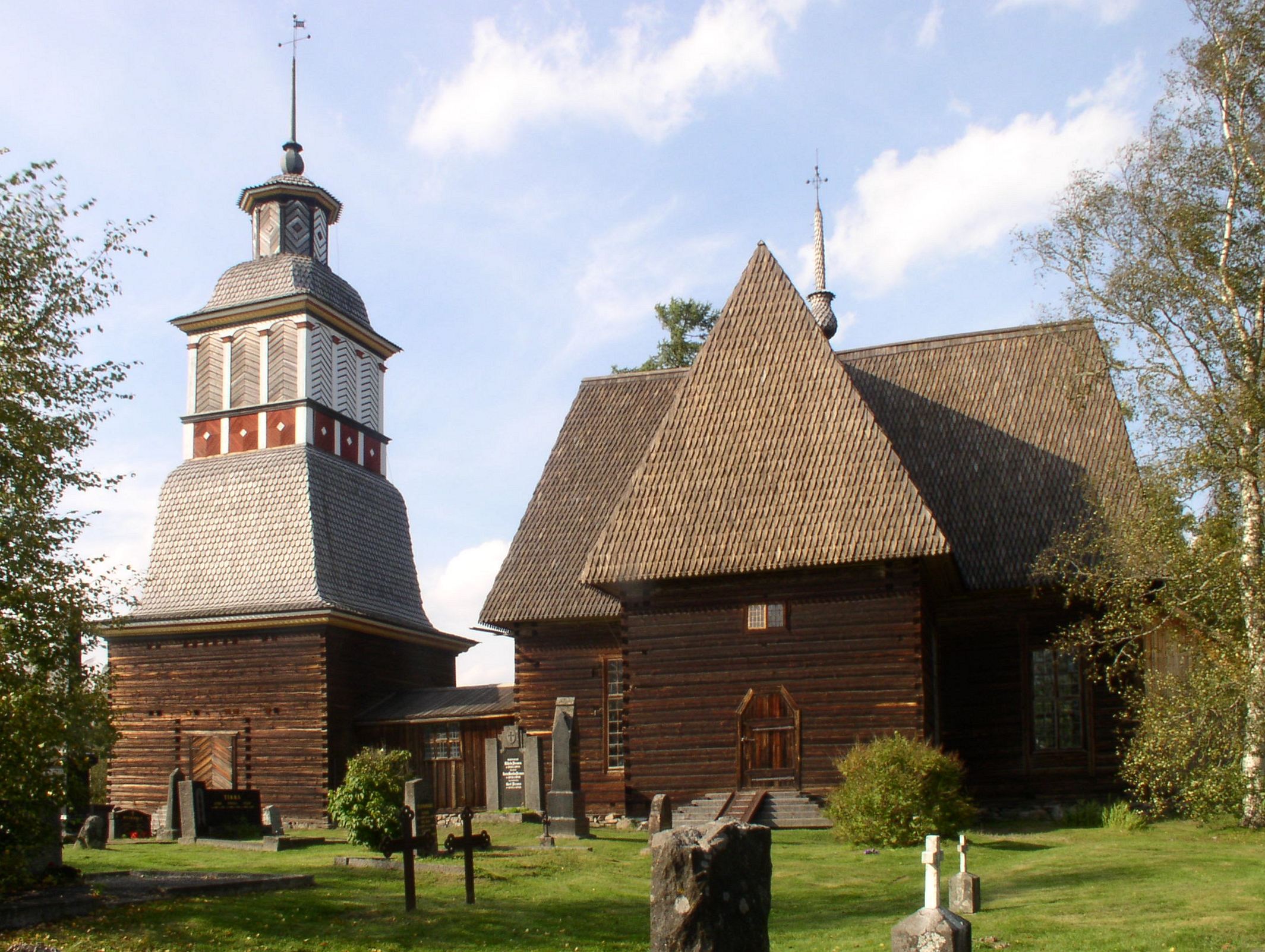 Petäjävesi Old Church, Finland, from south, wooden church 1763–64, bell tower 1821, UNESCO World heritage site